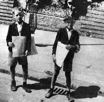 Warsaw Uprising: Newspaper boys on Dobra Street . Image quality problems are due to damage to negatives during fire of the house where they were hidden after uprising.